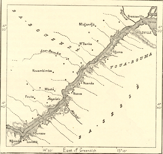 Map of the Livingstone Falls rapids section of the lower Congo River (circa 1890). Upper right corner shows the downriver end of the Pool Malebo, with Kinshasa and Brazzaville on opposite shores.